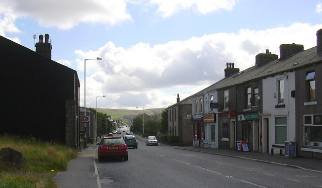 A671 Rochdale Road, Britannia Looking towards Rochdale.